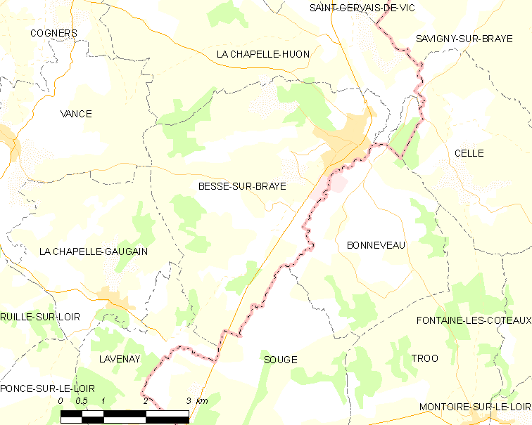 Map of French municipality